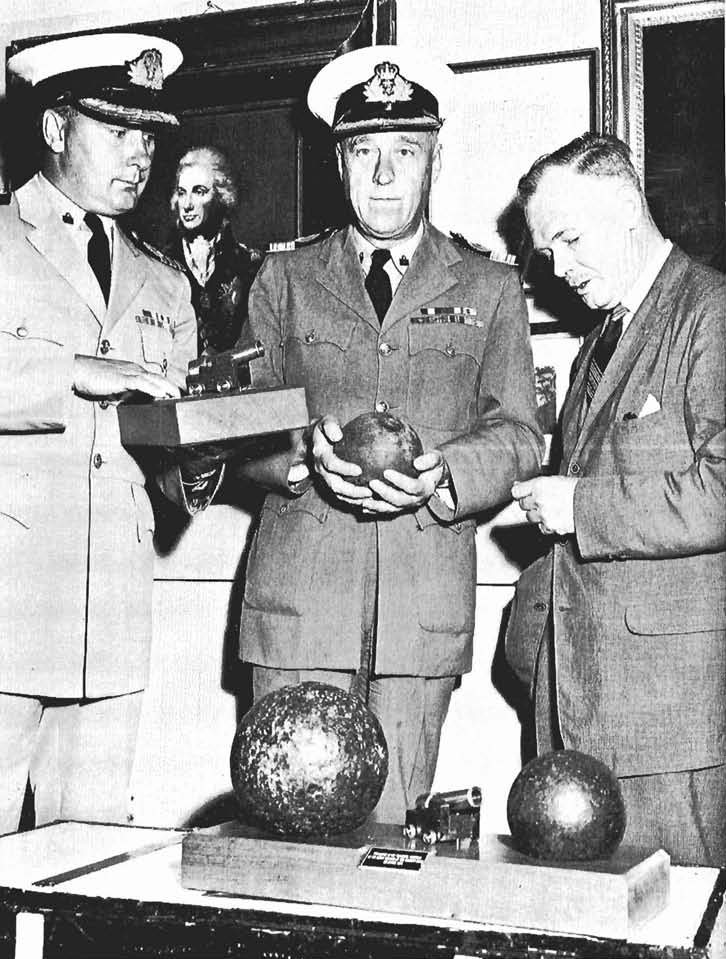 Three cannonballs, part of a bombardment of Ahousat Indian Village on Vancouver Island by the Royal Navy in 1864, being donated as museum exhibits. Original caption: "Three century-old cannon balls, fired in anger at the Ahousat Indian Village on the west coast of Vancouver Island 100 years ago by the Royal Navy, have been turned over to the Maritime Museum of B.C. The relics were presented to Lieutenant-Governor G. R. Pearkes for transfer to the museum when he visited Ahousat on board HMCS Margaree. Shown examining the suitably-mounted cannon balls are, left to right, Cdr. J. L. Panabaker, commanding officer of the Margaree, Commodore A. G. Boulton, chairman of the board of trustees of the Maritime Museum, and Col. J. W. D. Symons, director of the museum. One was a mortar shell with its powder charge and had to be deactivated by navy divers before becoming a museum piece."